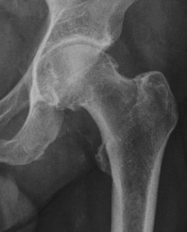 For context, see: Hip pain